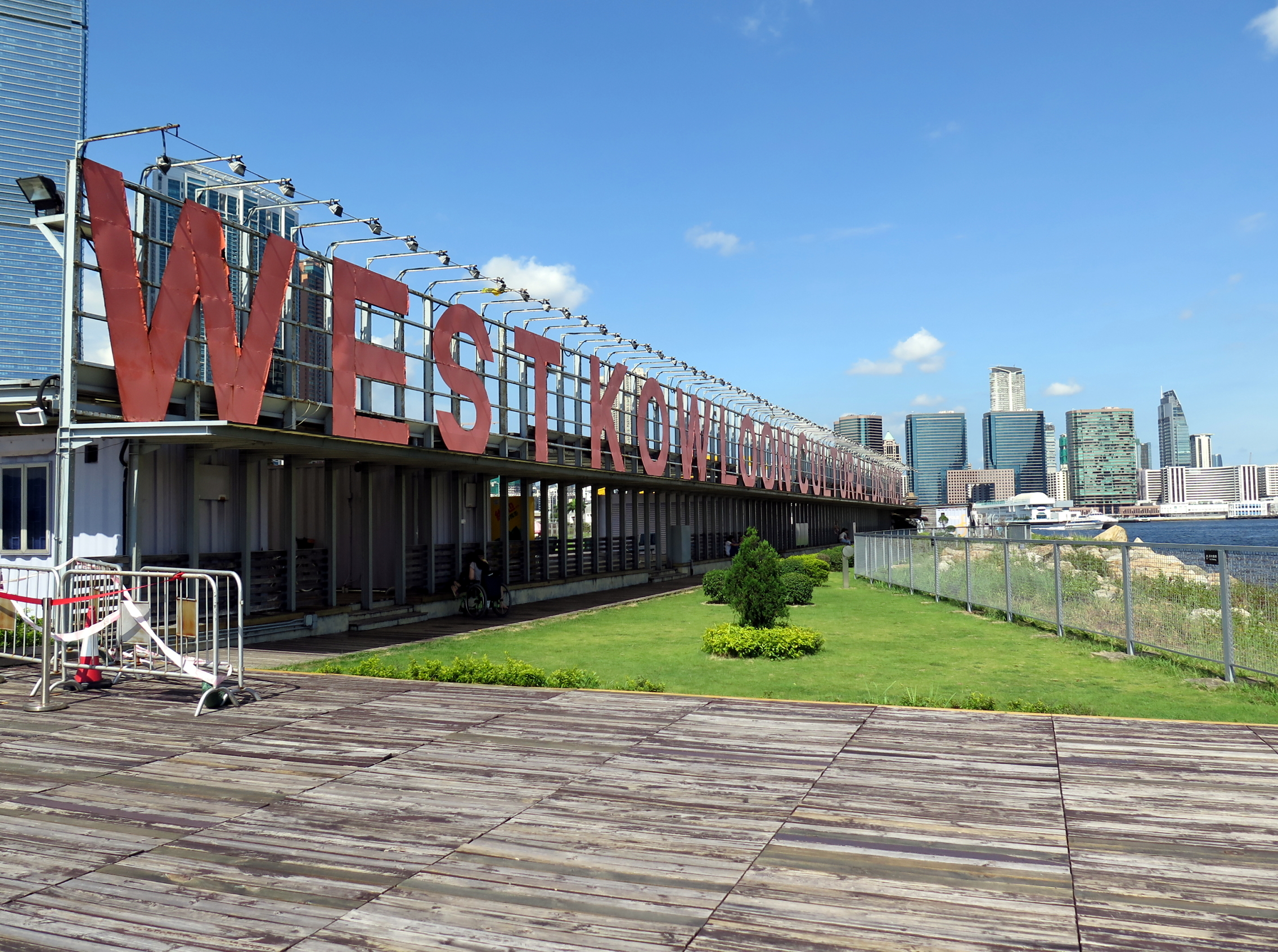 West Kowloon Waterfront Promenade